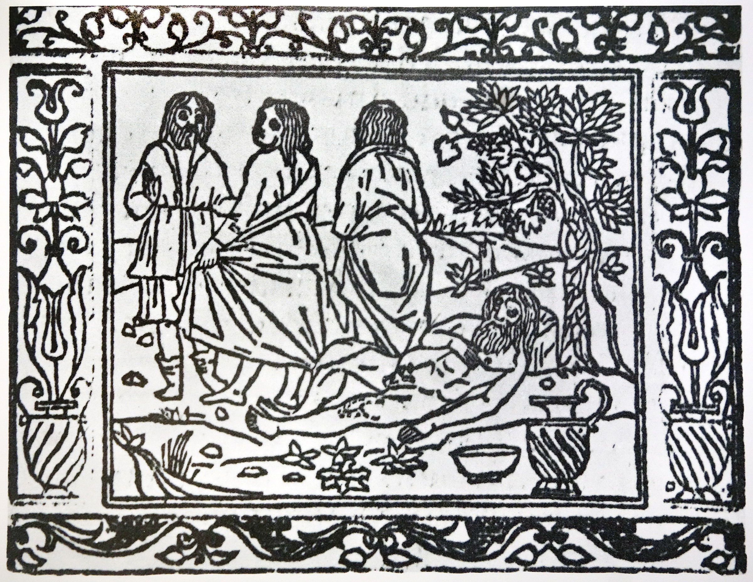 Unknown artist: The derision of Noah, 1493. Woodcut, in: Biblica Italica, folio 3 verso (Biblioteca Marciana, Venezia)